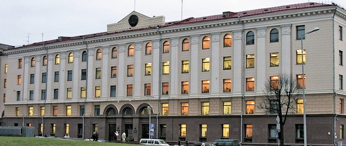 Здание Миноблисполкома (г.Минск, ул. Энгельска)